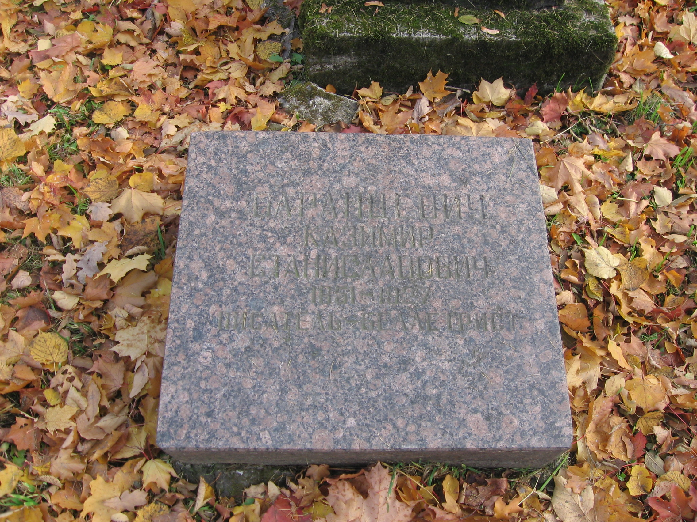 Grave of Kazimir Barantsevich